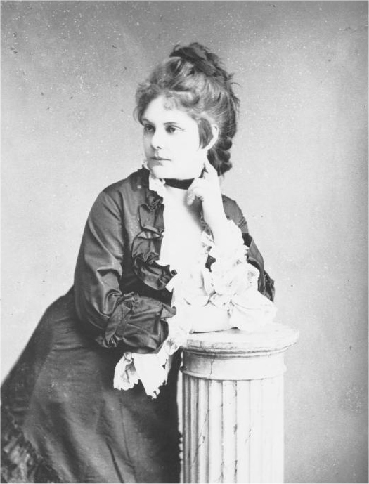 Sophie Menter, german pianist and musical educator